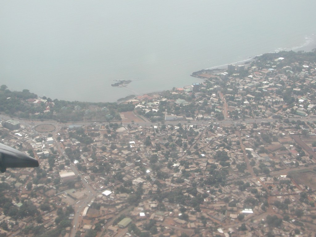 This is when I was flying over Conakry, Guinea on April 23, 2004.